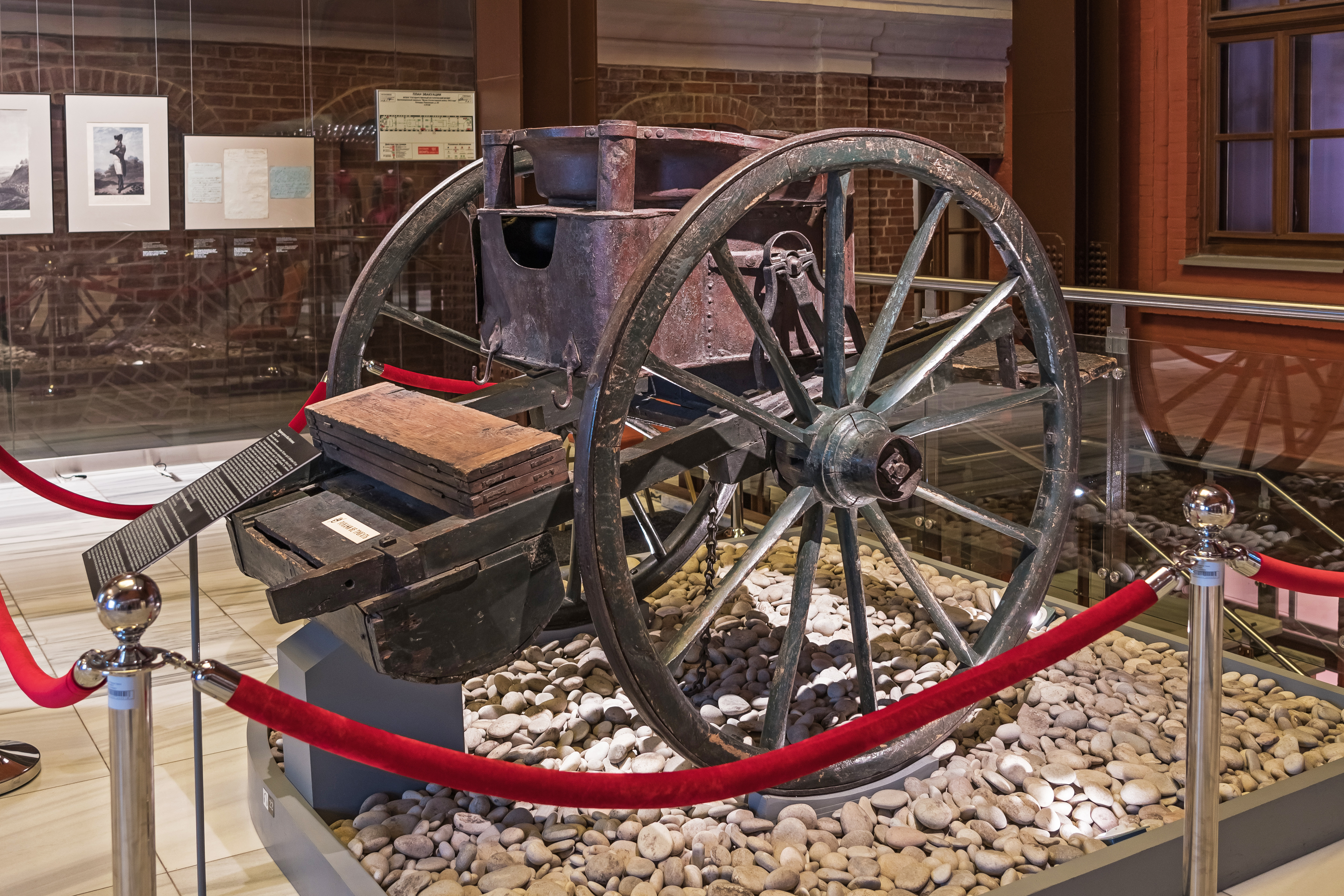 Museum of Patriotic War 1812 in Moscow, Russia. A field kitchen used by Napoleon's army.